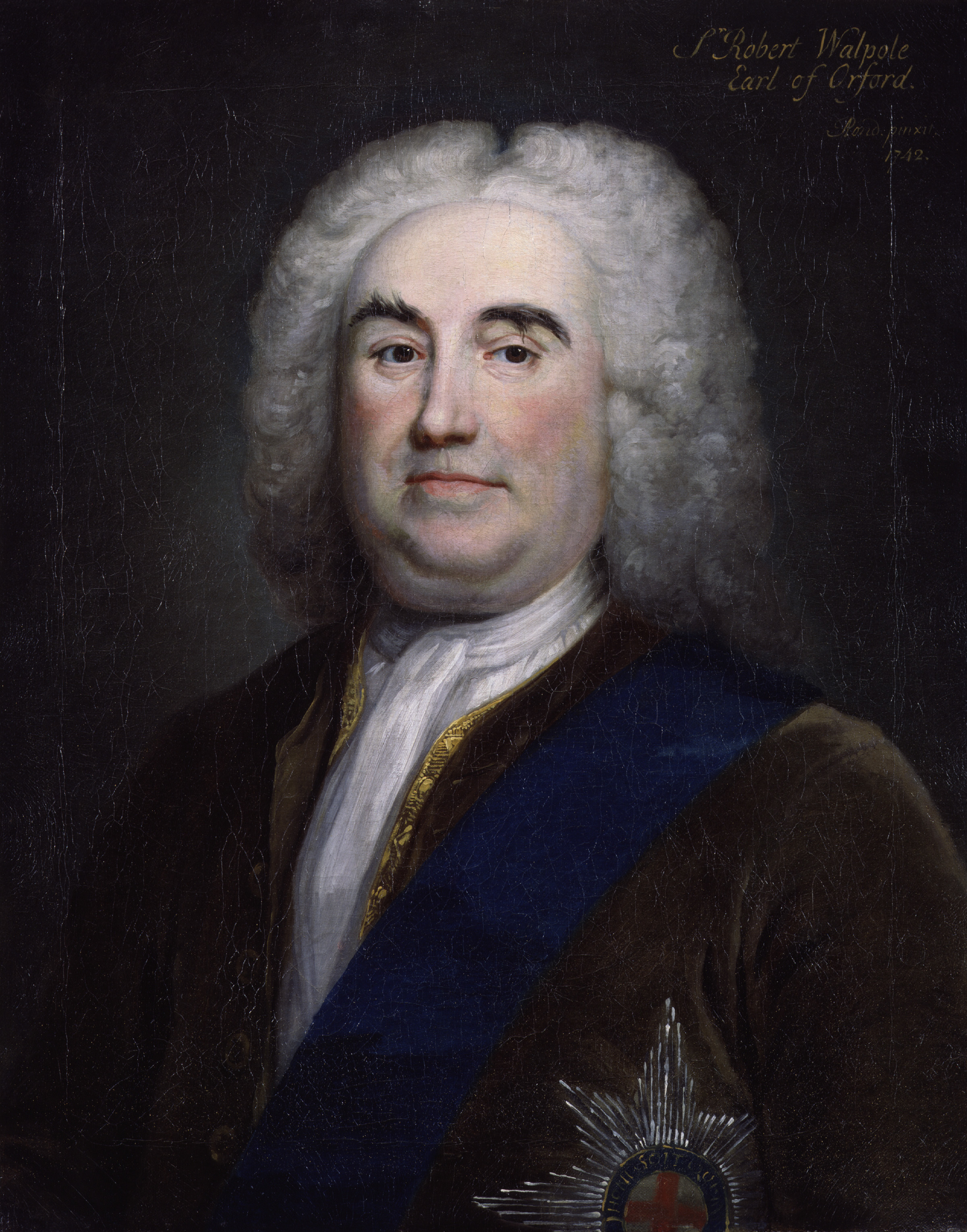 Portrait of Robert Walpole (1676–1745)